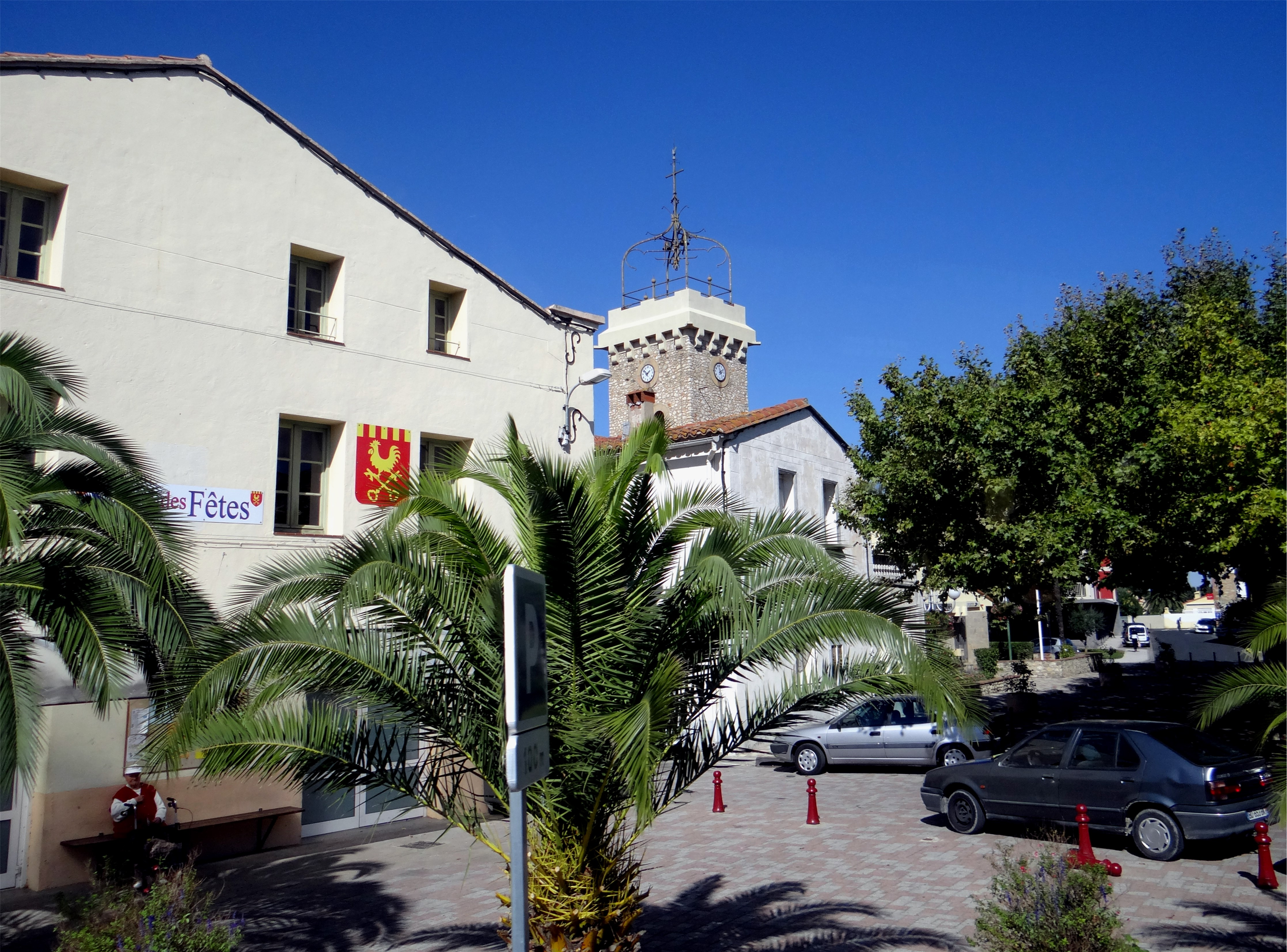 Square Drive Théza, Pyrénées-Orientales, France.